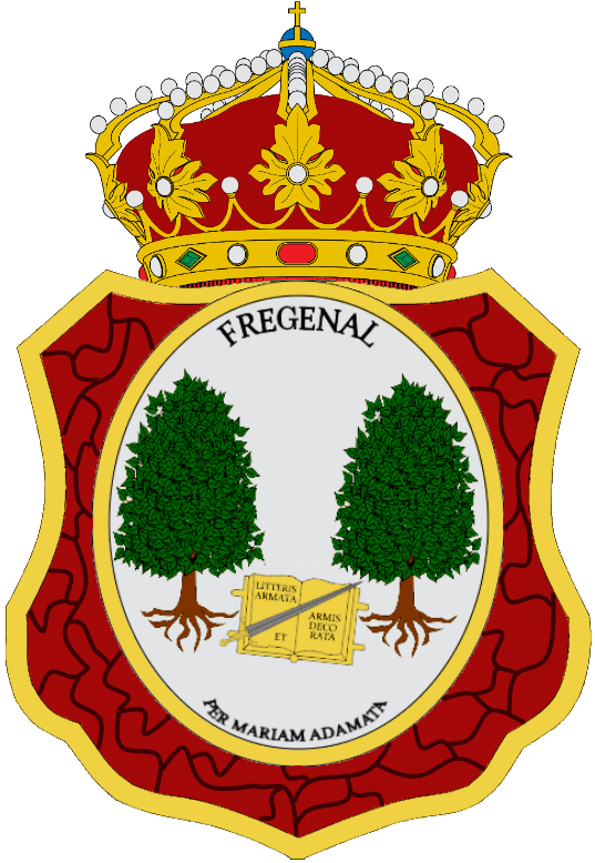 Fregenal's save